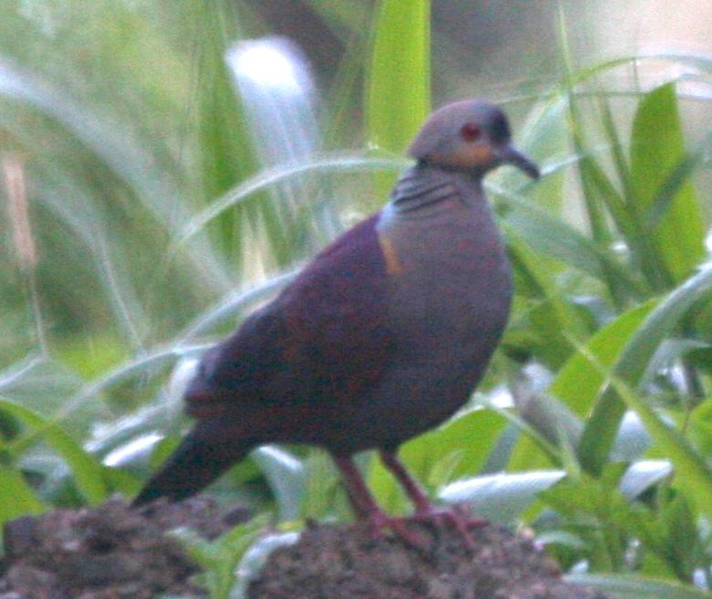 Crested Quail-dove